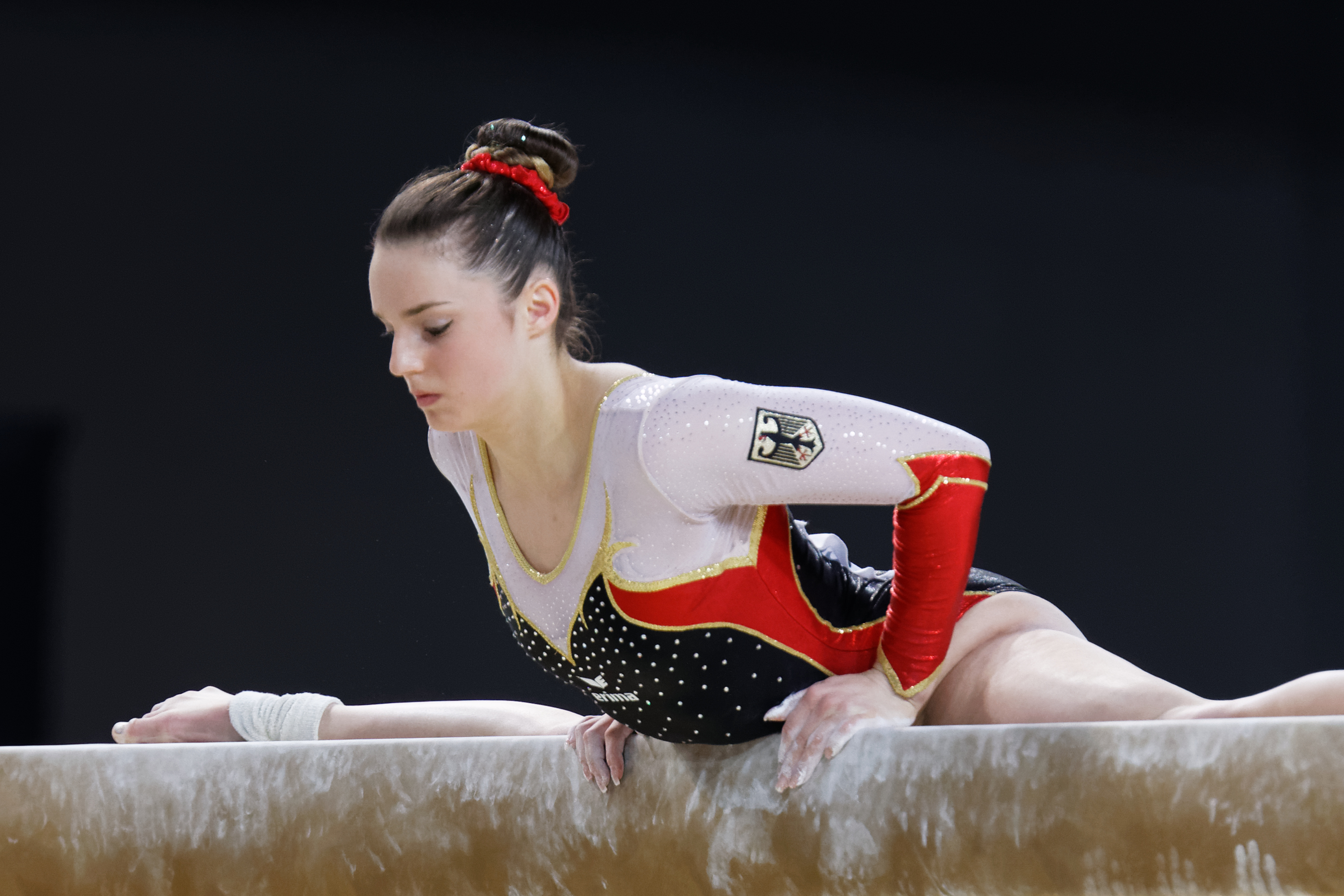 2015 European Artistic Gymnastics Championships. Bamance beam.